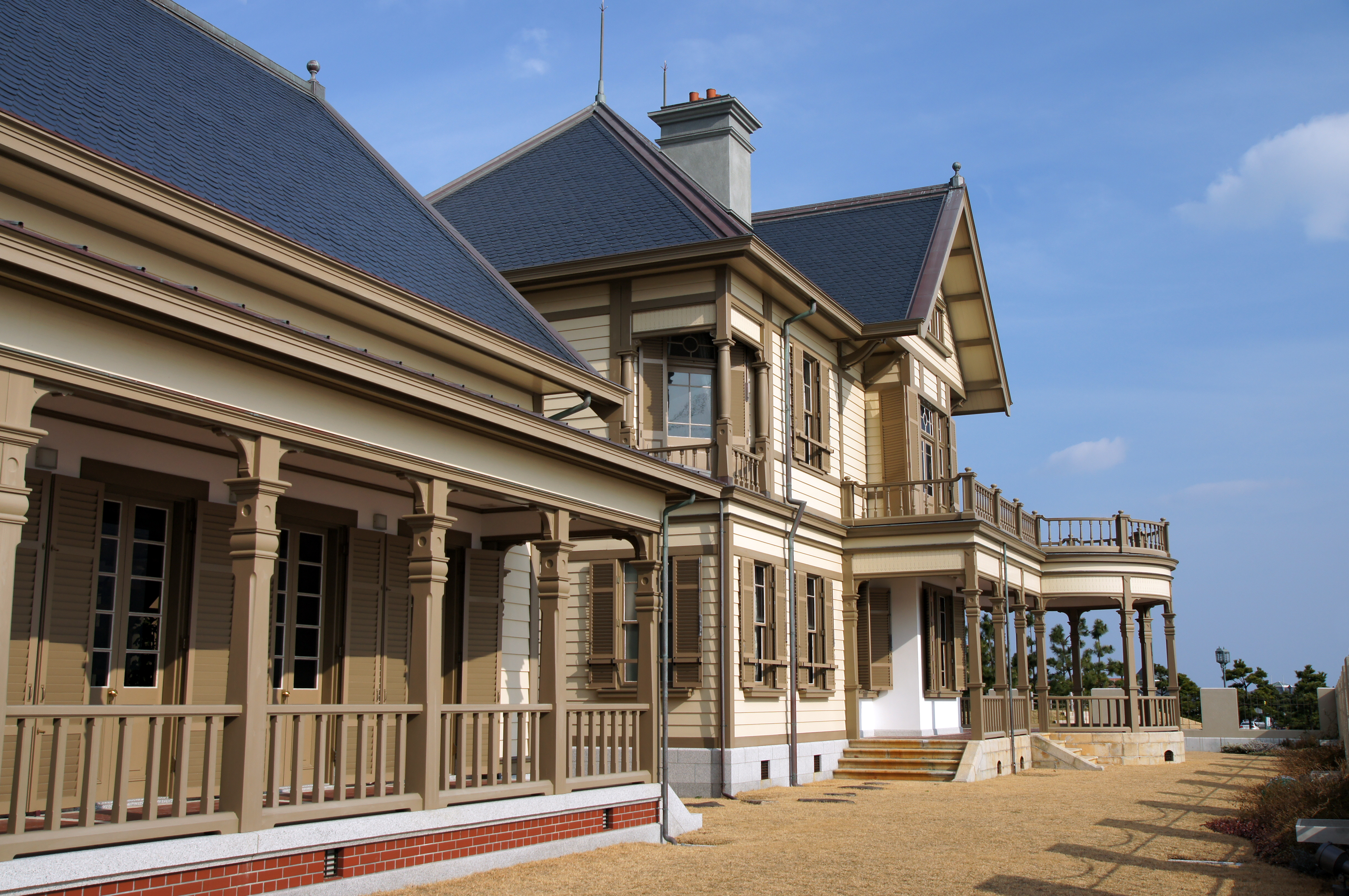 Former Muto Villa in Kobe, Hyogo prefecture, Japan